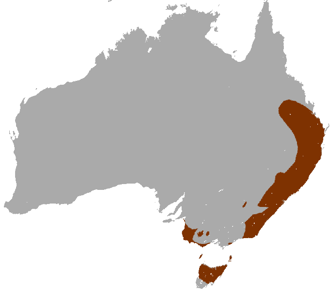 Red-necked Wallaby (Macropus rufogriseus) range